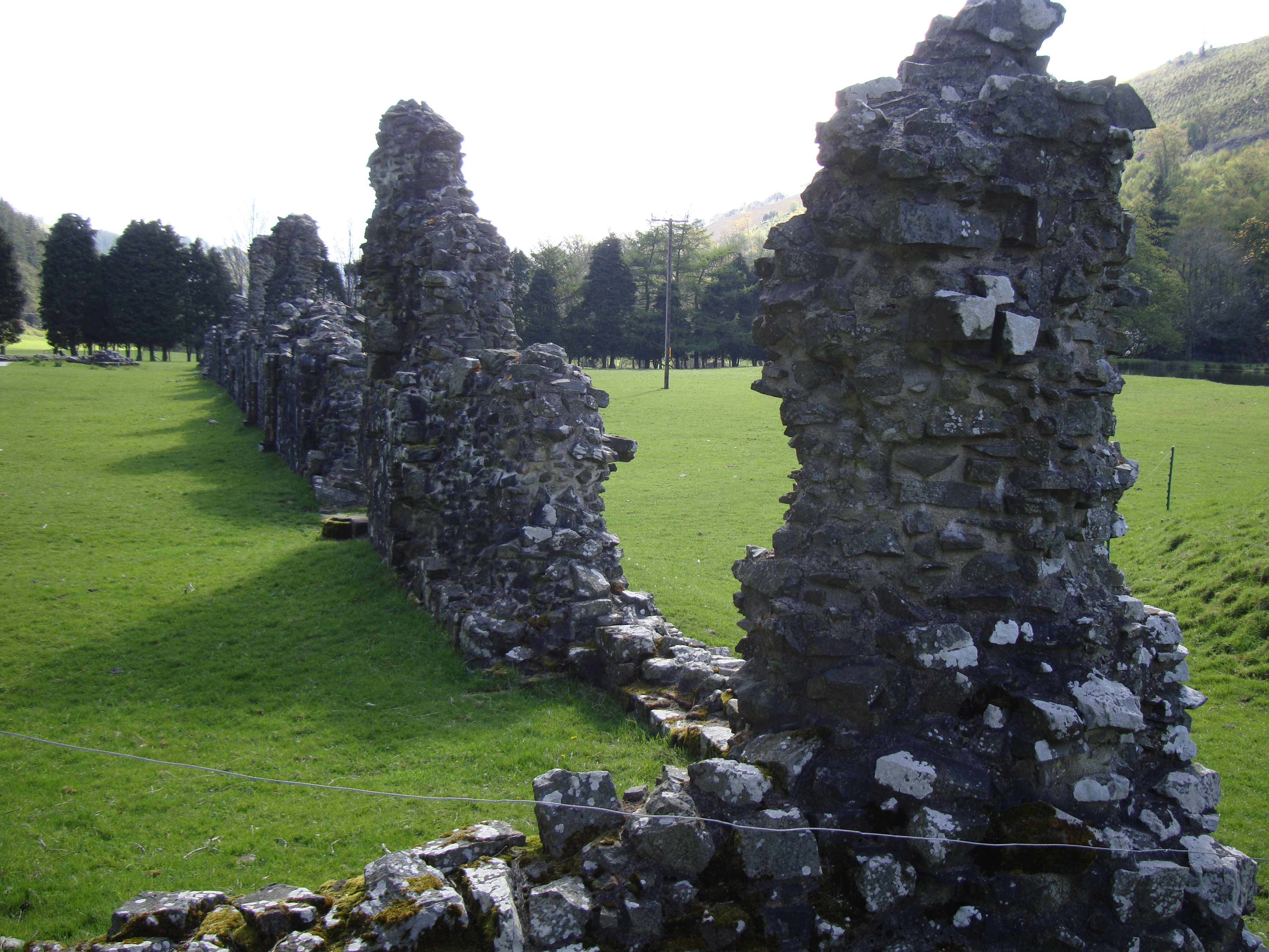 Photograph of Cwmhir Abbey, Powys, Wales